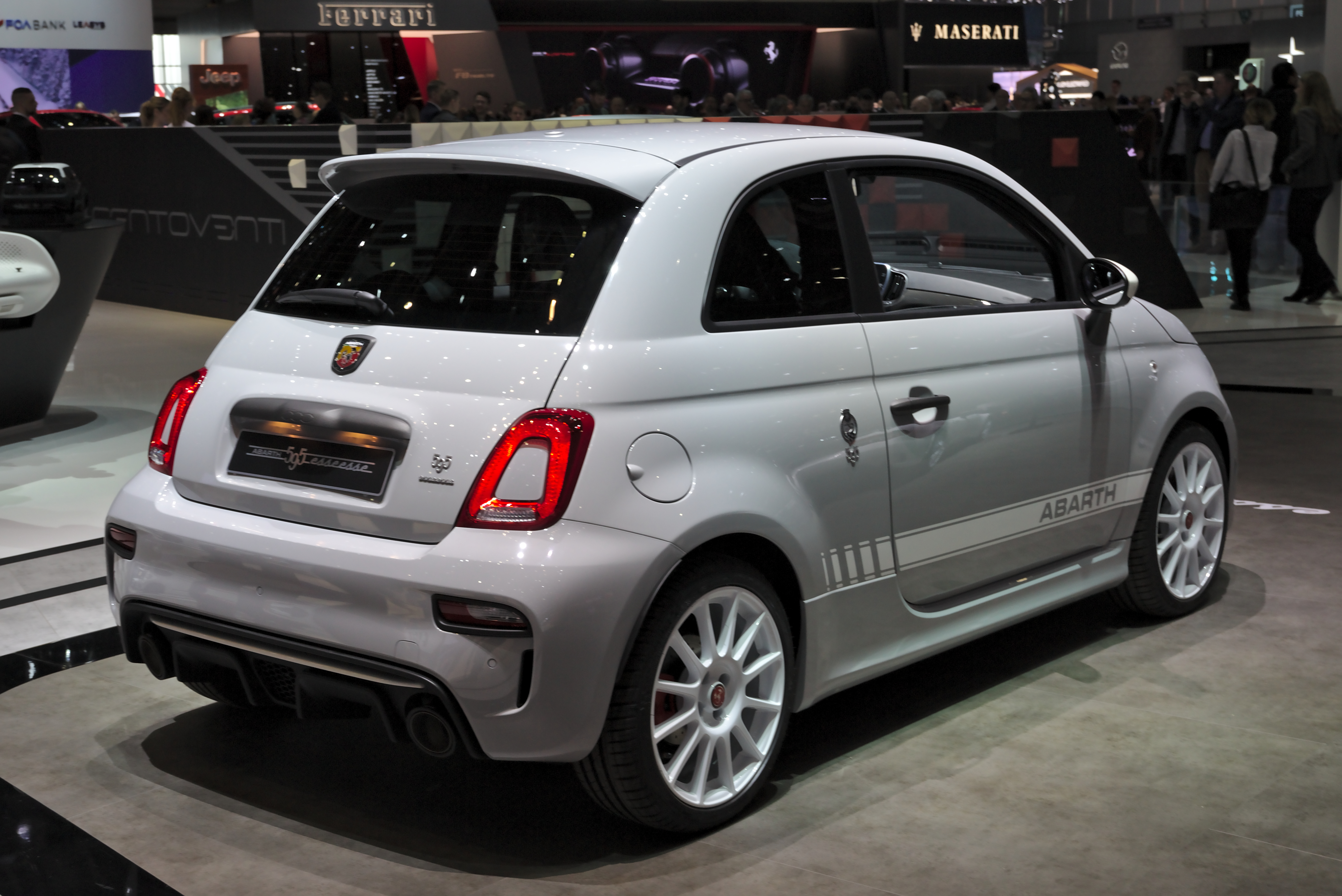 Abarth 595 esseesse at Geneva Motor Show 2019